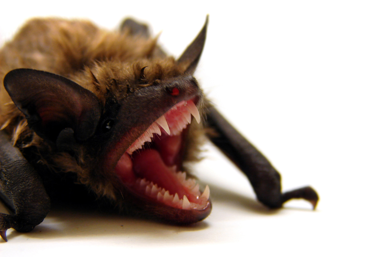 This is "Tough Guy", a big brown bat, Eptesicus fuscus. I forget what number he is, I lose track of these things. But anyway, he's a male, which is rare. For those that don't know, I do bat rescue in the dormitories here. He's really quite nice, but likes to put on his tough guy display now and then, hence his name. I'll let him go once it's dark out. Ugh, I wish I had a place with better lighting for photography though. Also, should I crop this photo? If you'd like to use this photo for anything, at least let me know about it, please. 457 in Explore, 30 June 2007 This photo was also featured in Daily Flickr